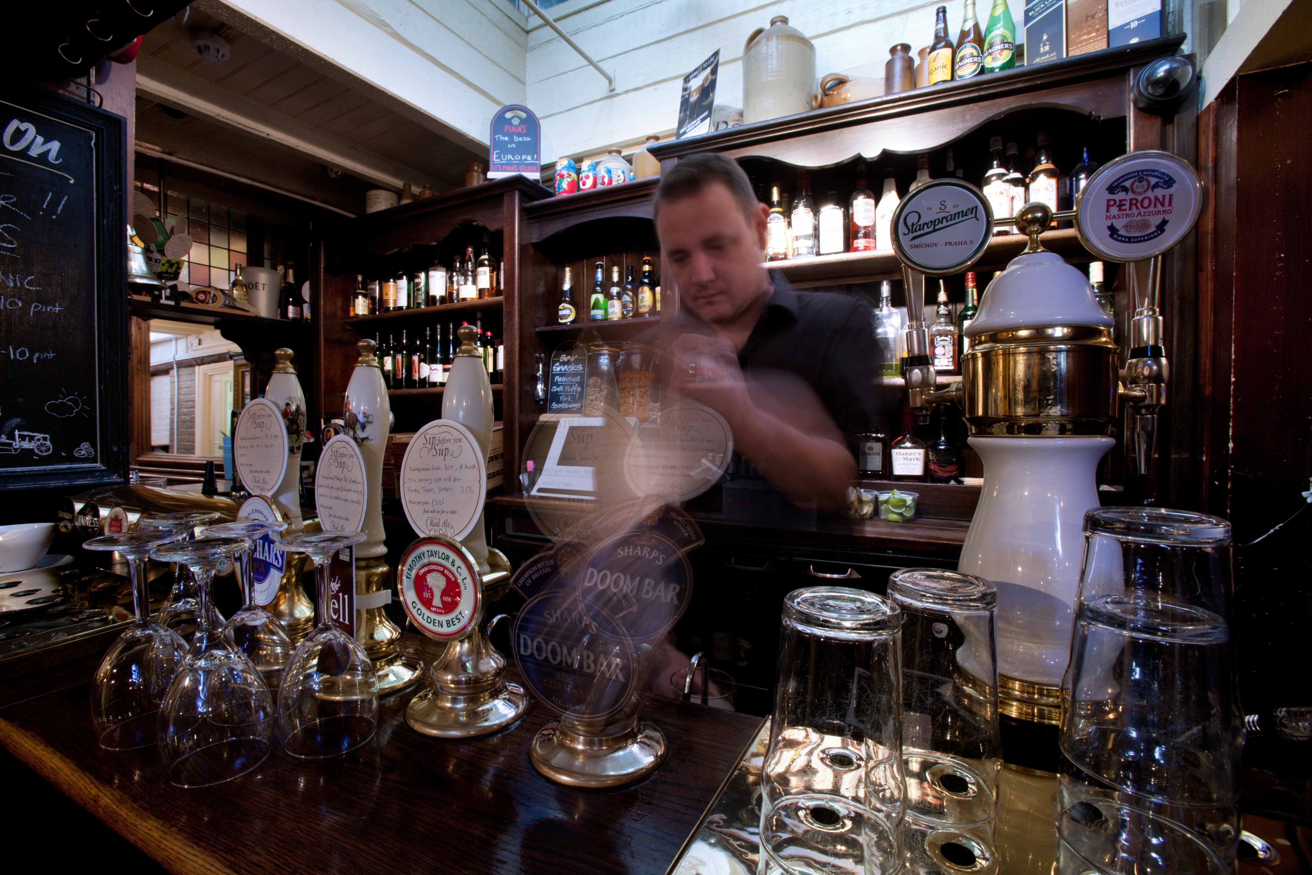 Eagle & Child Pub, Oxford, UK